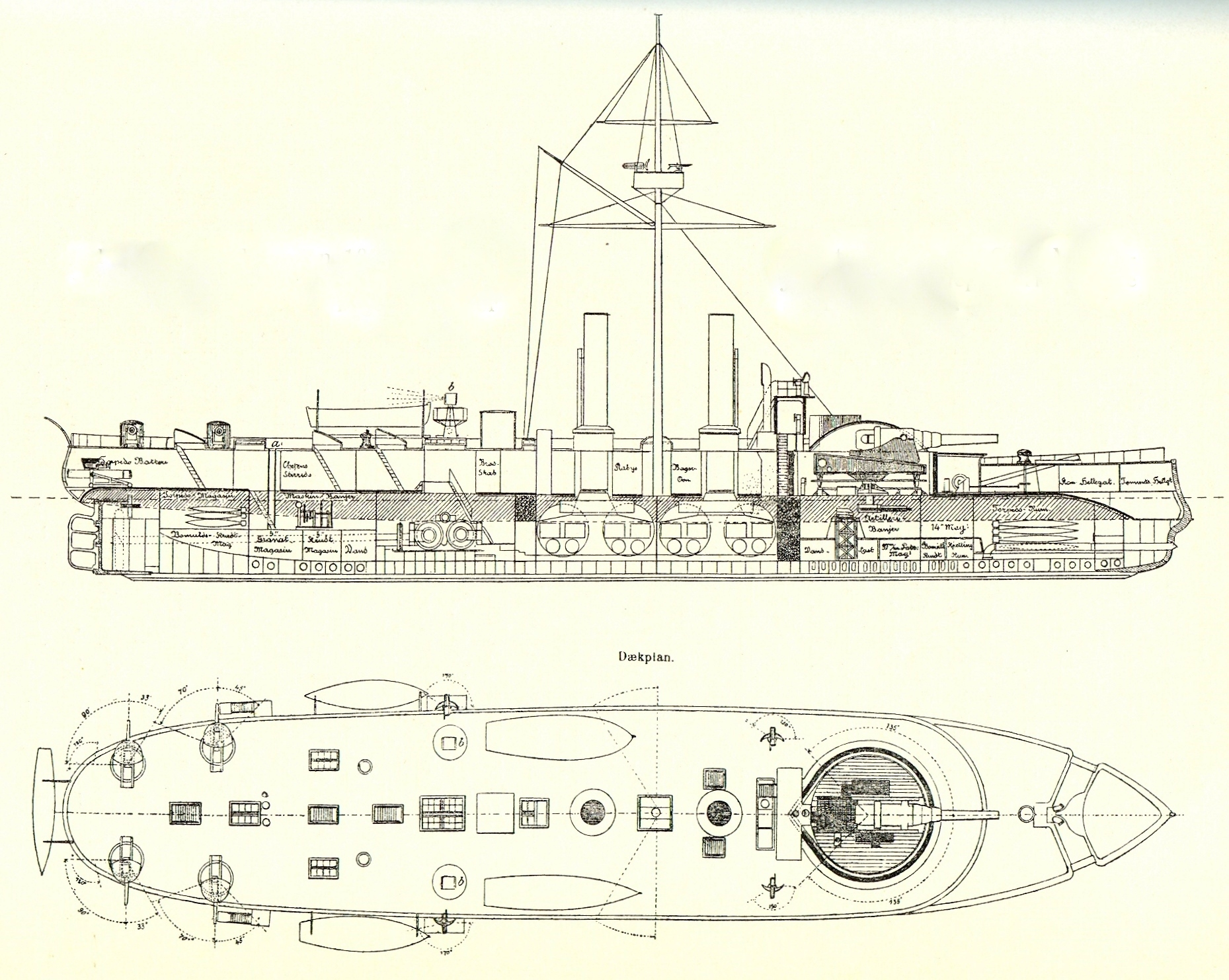 Plan of Danish Ironclad Tordenskjold, launched 1880, serving 1882-1908.